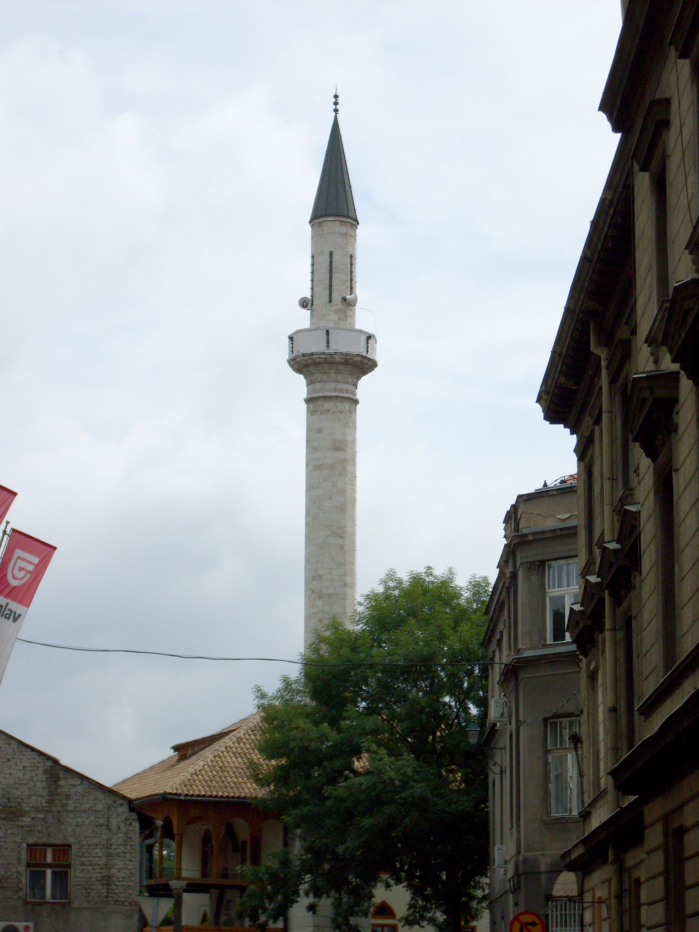 Magribija mosque, Sarajevo